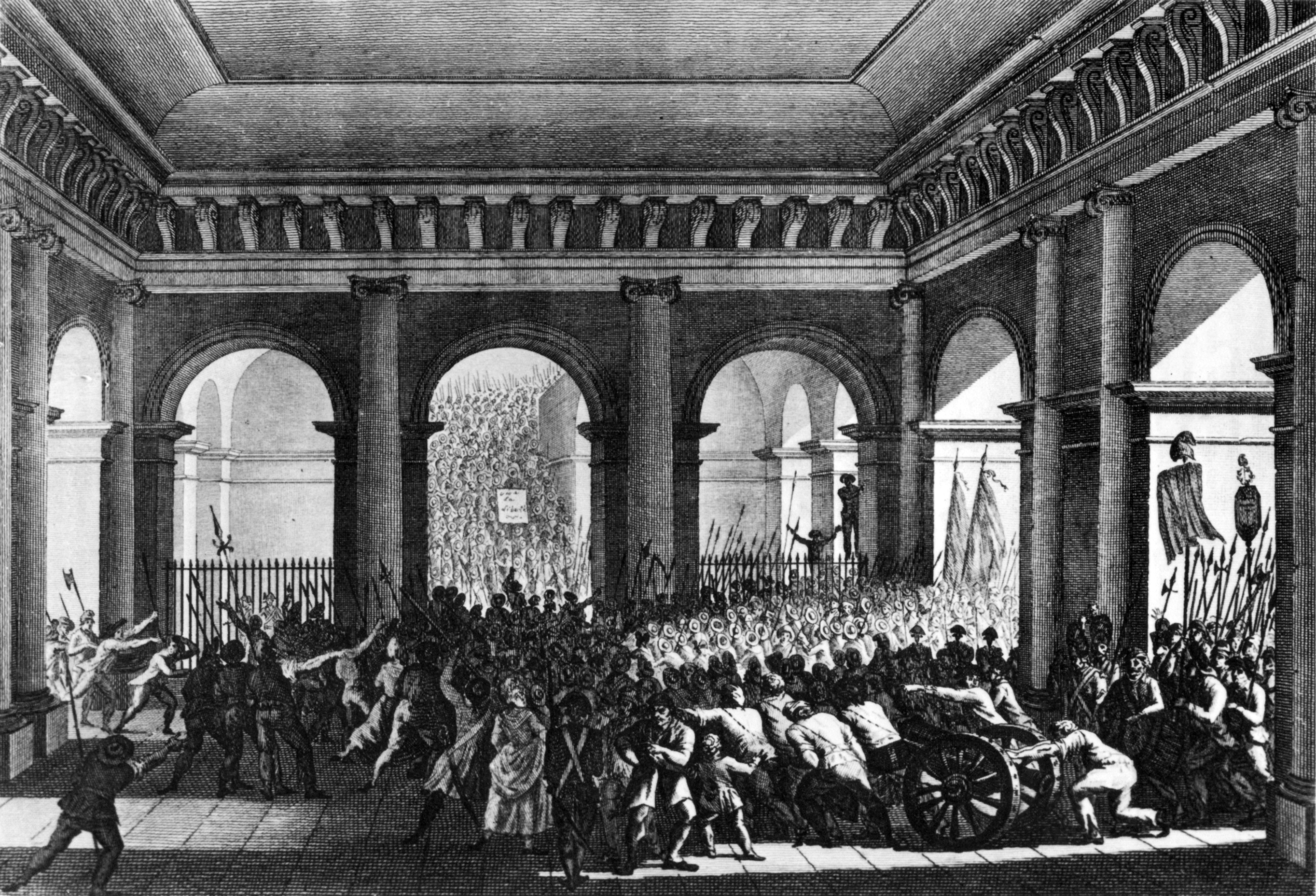 The people of Paris entering the palais of the Tuileries, 20. June 1792